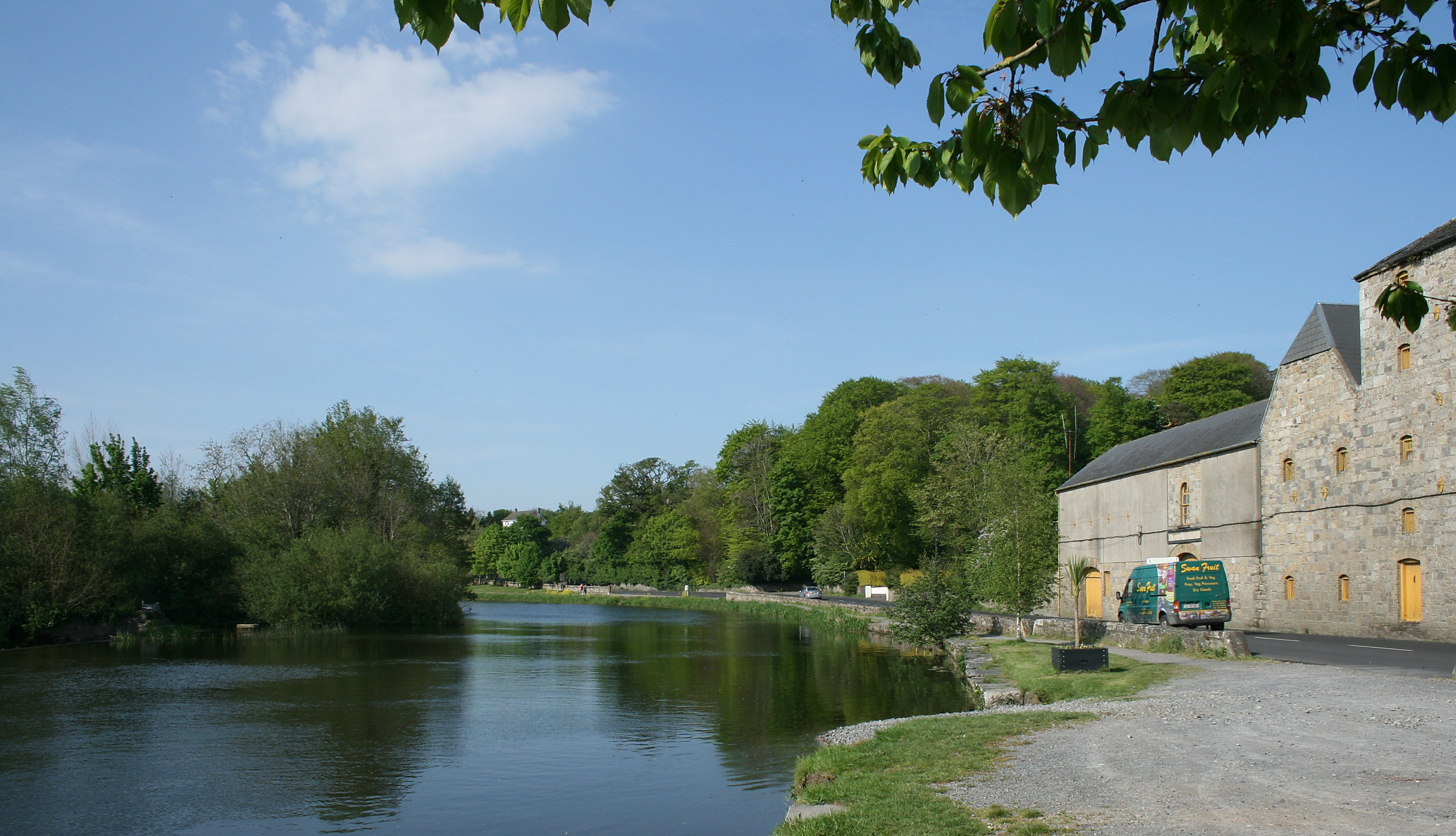 The River Barrow, County Carlow, near to Philip Street, Ballymoon and Royaloak, Carlow, Ireland. A drive-in opportunity as the R705 hugs the River Barrow.